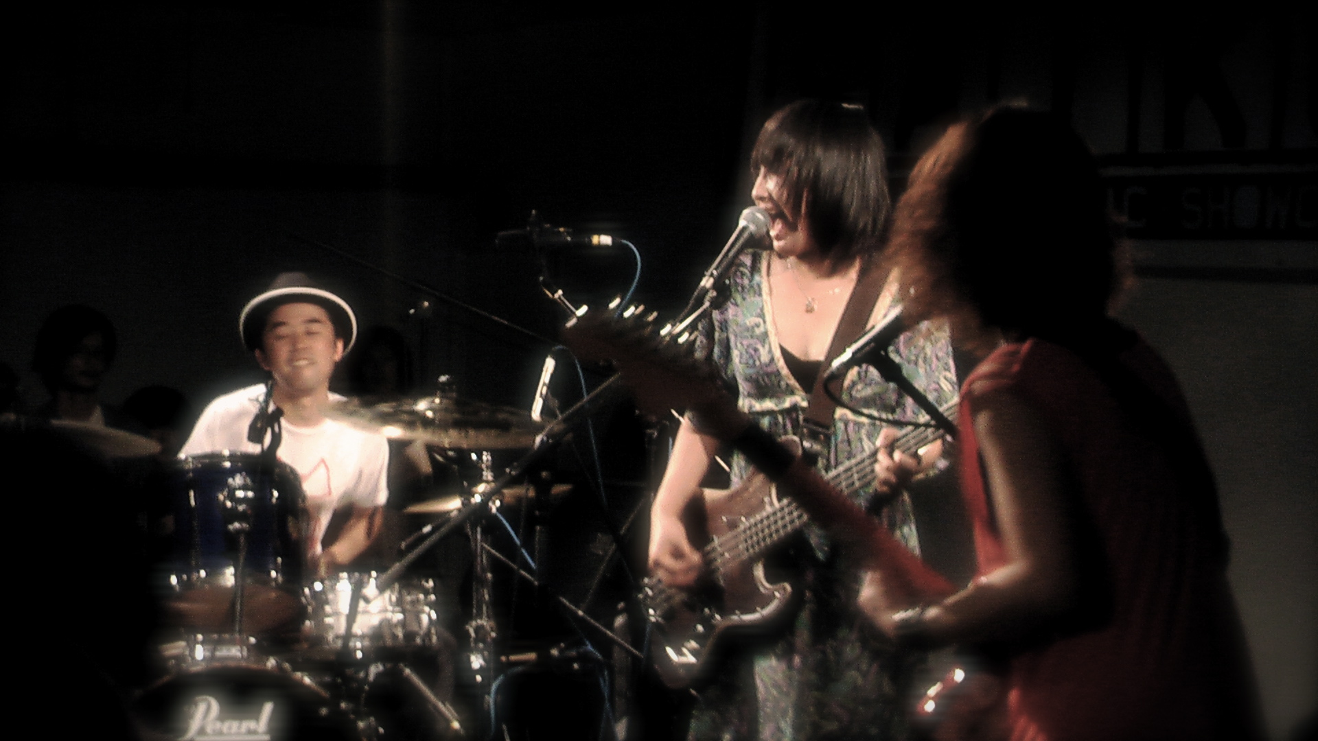 Mass of the Fermenting Dregs performing at Saiko Presents Rock Chick, April 18th 2009, at SuperDeluxe in Roppongi.